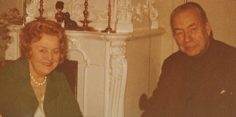 Edith Oldrup-Björling and Sigurd Björling in 1977.